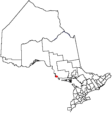 The location of Sault Ste. Marie, Ontario